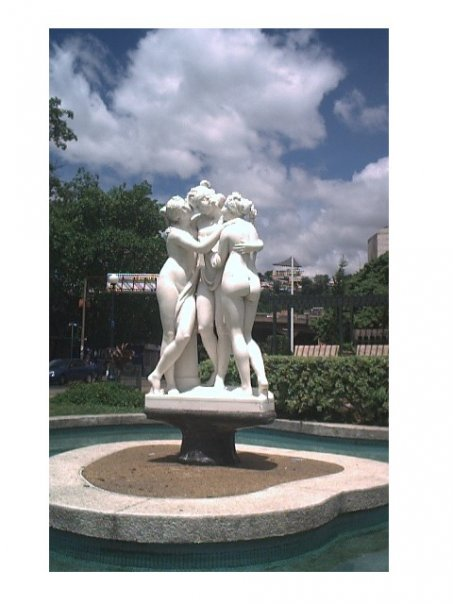 The Three Graces by Pietro Ceccarelli